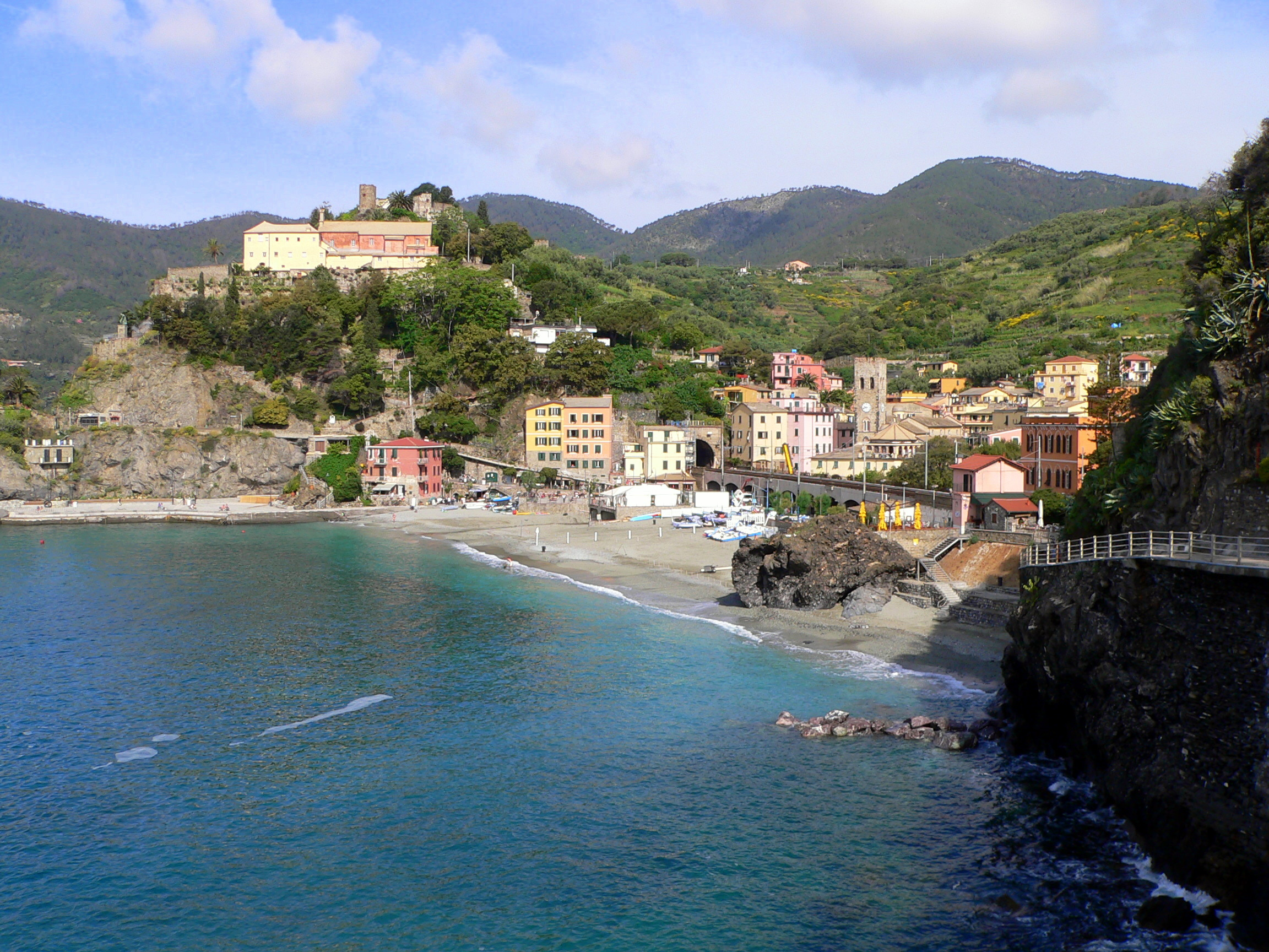 Taken on our trip to Italy in 2008 Monterosso al Mare